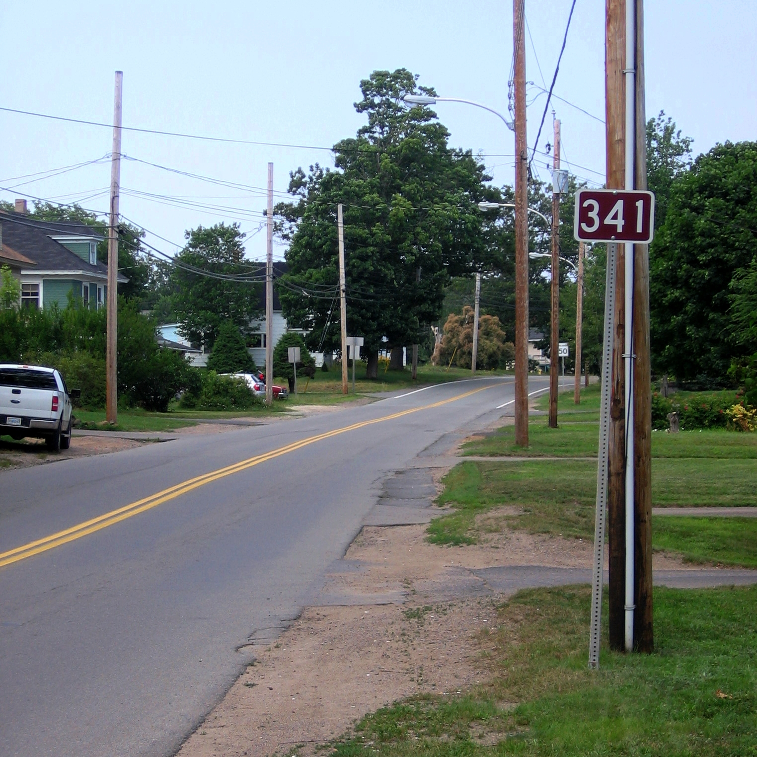 Route sign - Highway 341 in Kentville, NS